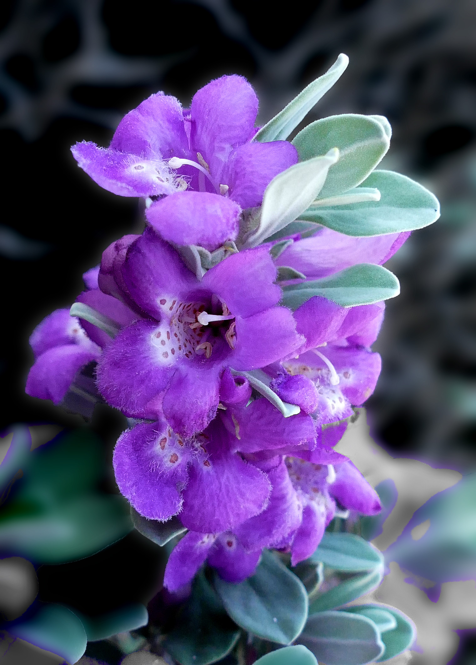 Texas sage is also known as Cenizo, purple sage (as in Riders of the Purple sage), Texas ranger, and other common names. Cenizo is extremely drought tough and needs very little water once established.